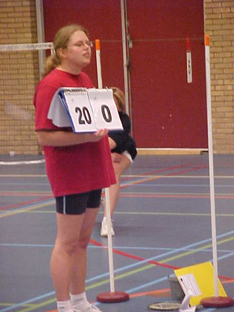 Monsterscore